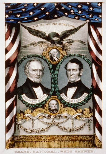 1852 Grand National Whig banner